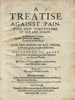 Title page of A Treatise Against Painting and Tincturing of Men and Women by Thomas Tuke.